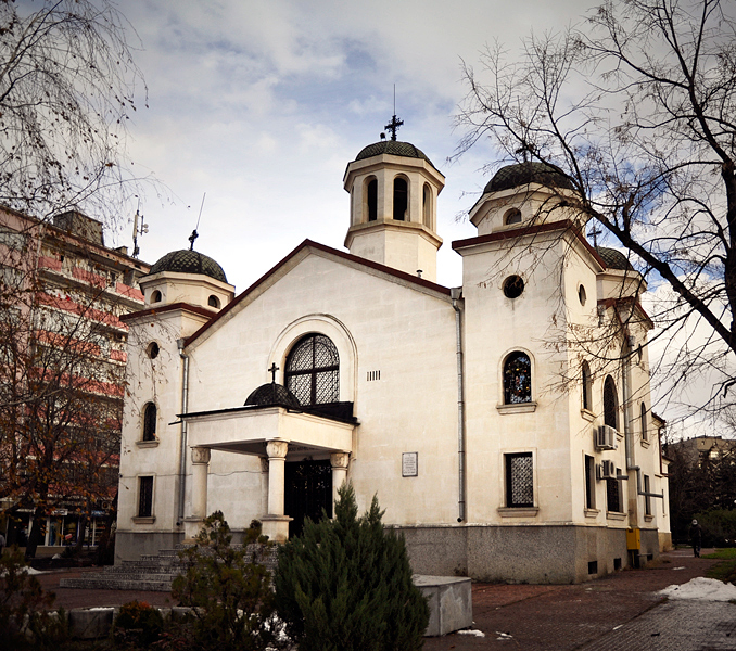 St John of Rila church, Targovishte